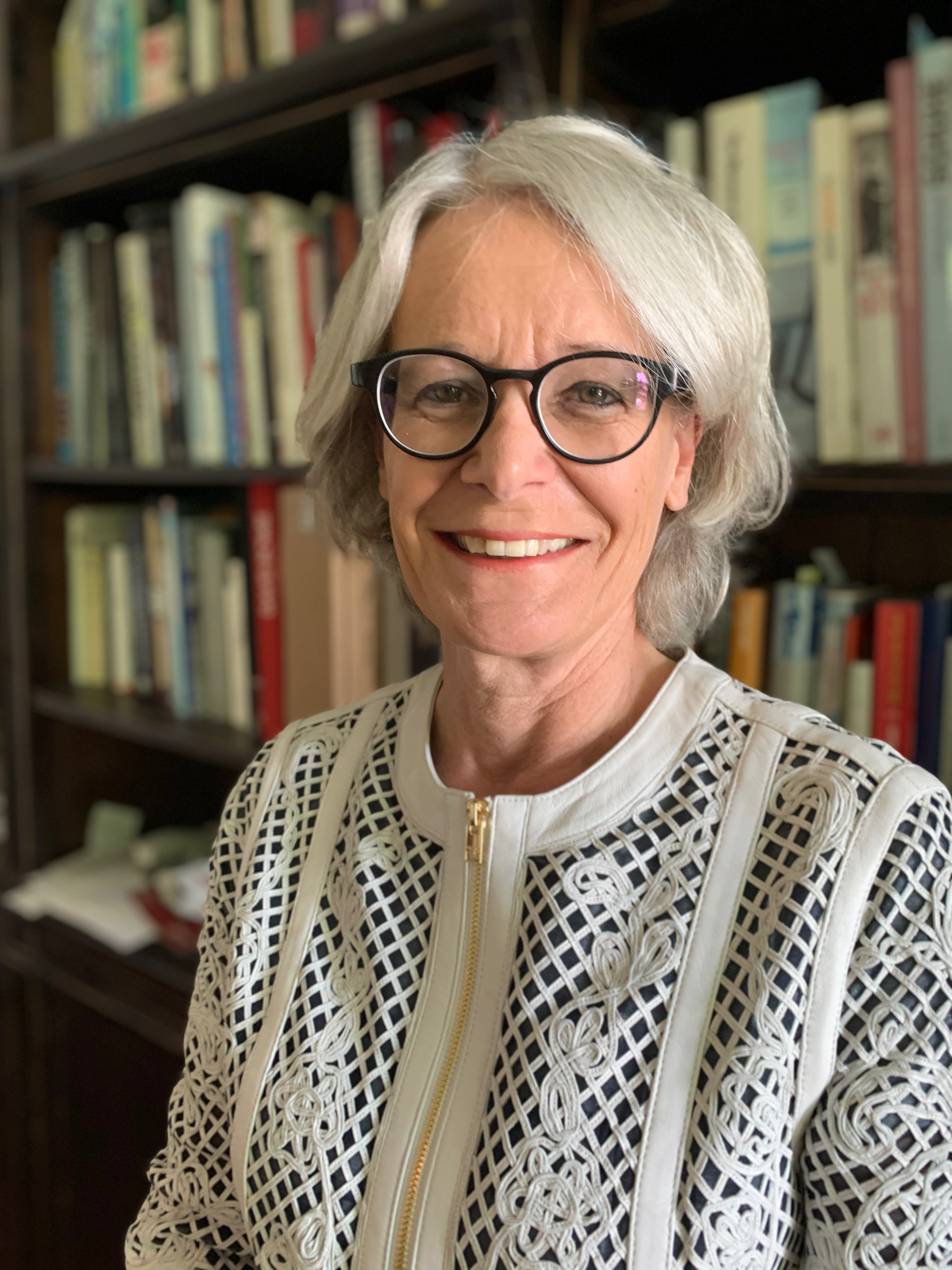 Professor Dr. Jacqueline Otten in the year 2020